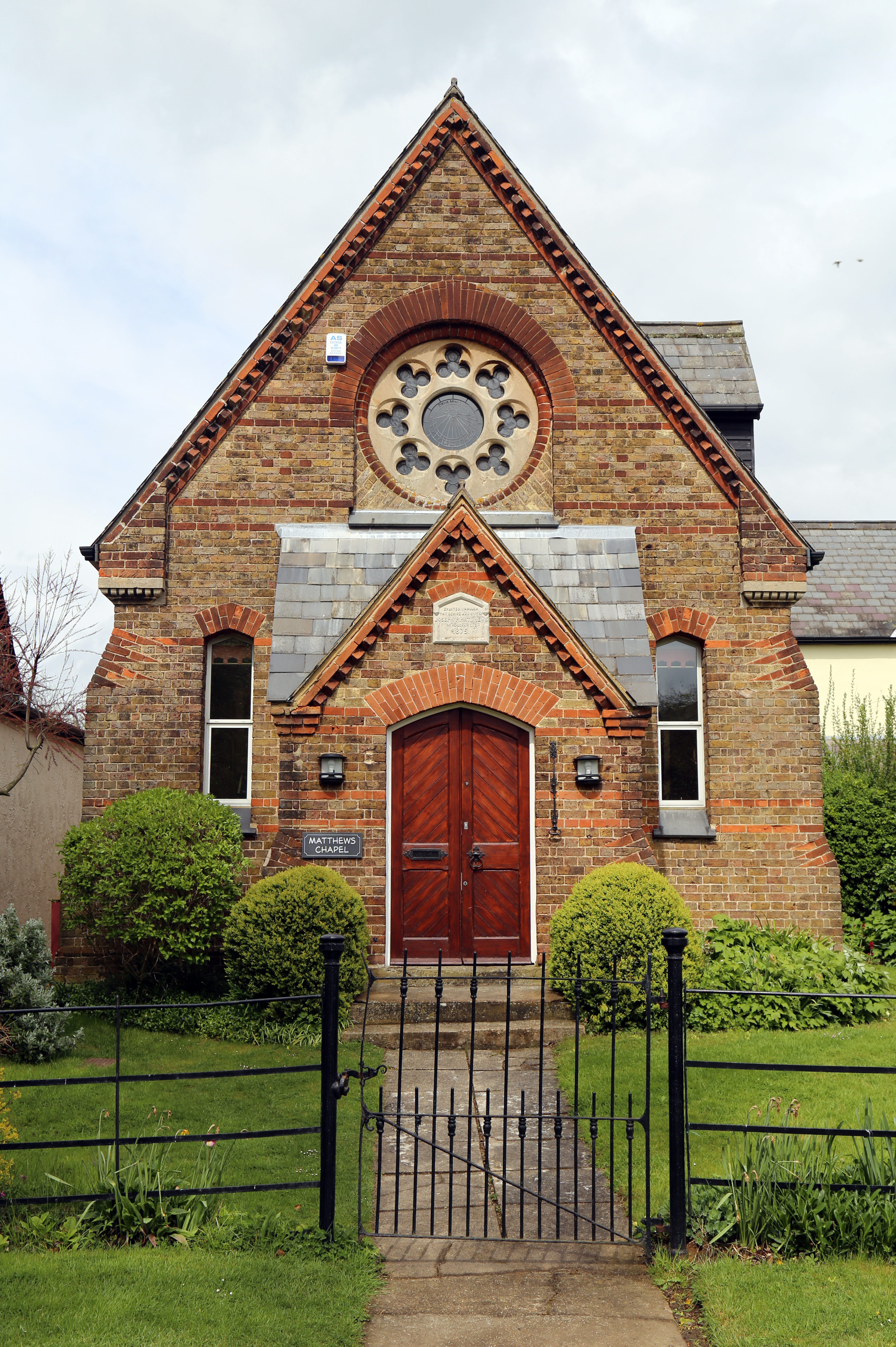 Matthews Chapel, Matching Green Road, Matching Tye, Essex, England, built about 1875